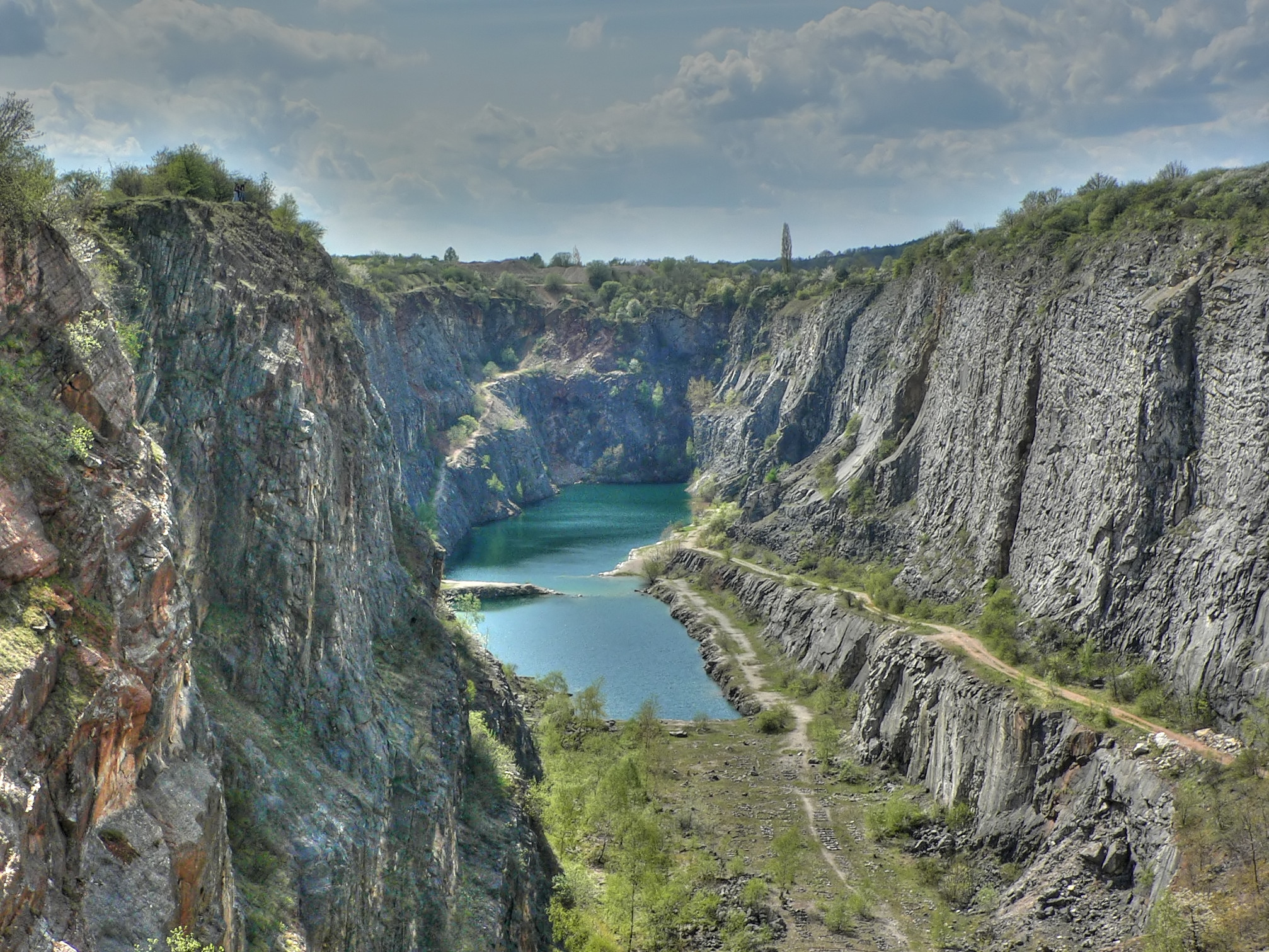 HDR image of Amerika quarry, Czech Republic, 2006